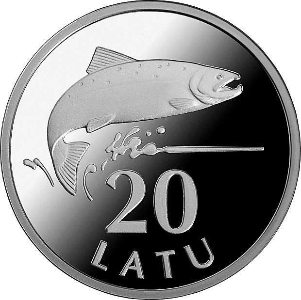 Silver Salmon coin reverse